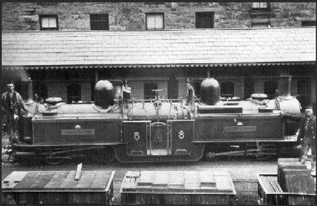 Festiniog Railway locomotive James Spooner at Blaenau Ffestiniog